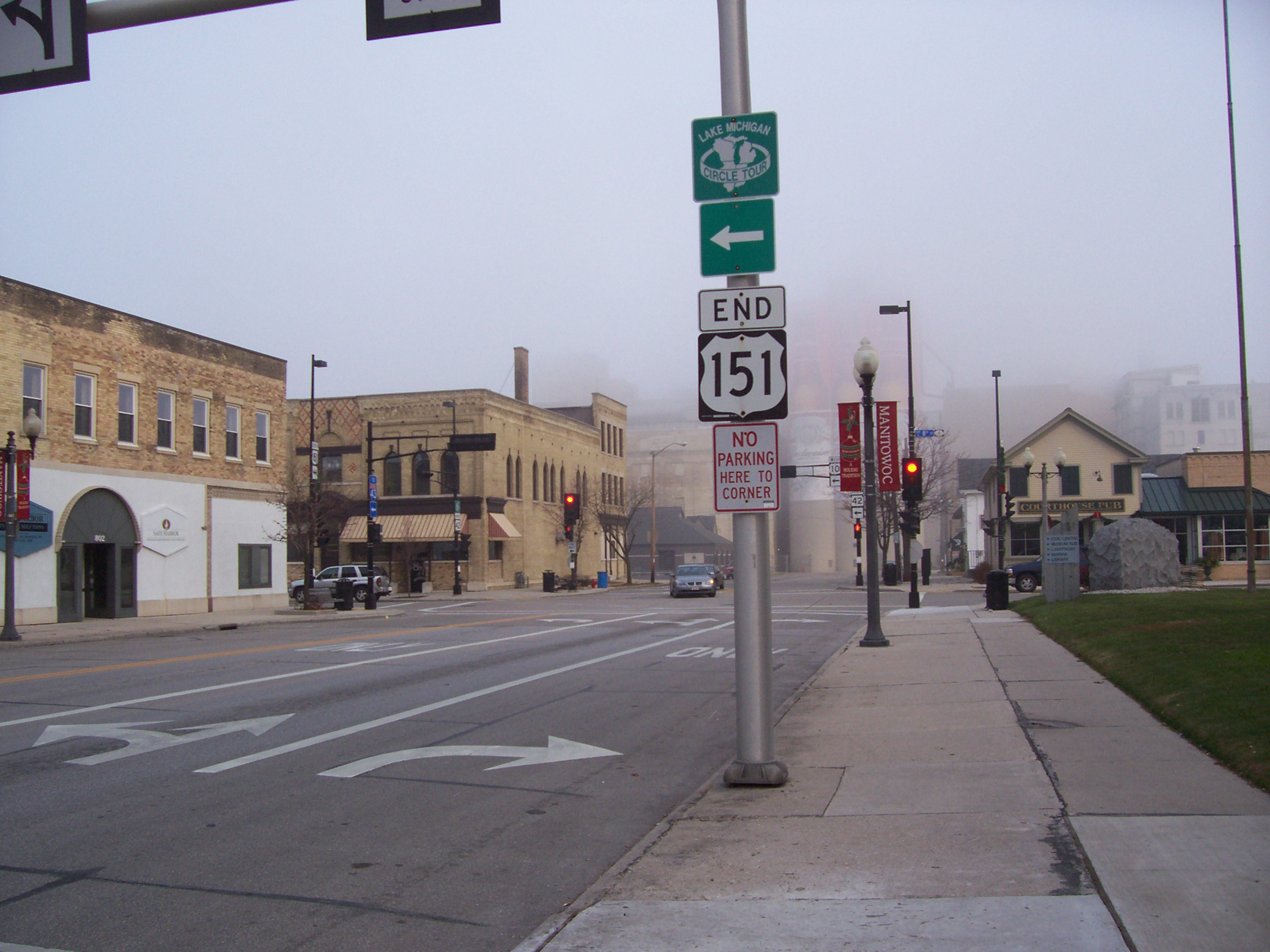 Looking east at the northeastern terminus of U.S. Route 151 in Manitowoc, Wisconsin. The route is part of the Lake Michigan Circle Tour. It is located inside Manitowoc's Eighth Street Historic District.